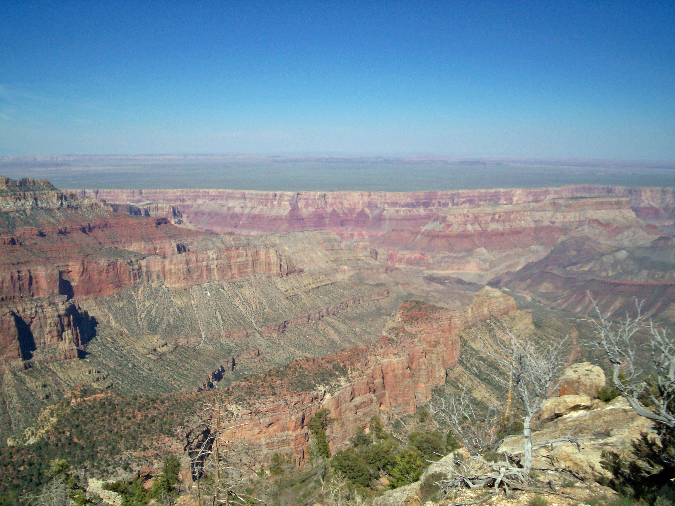 Grand Canyon National Park, North Rim in Arizona.